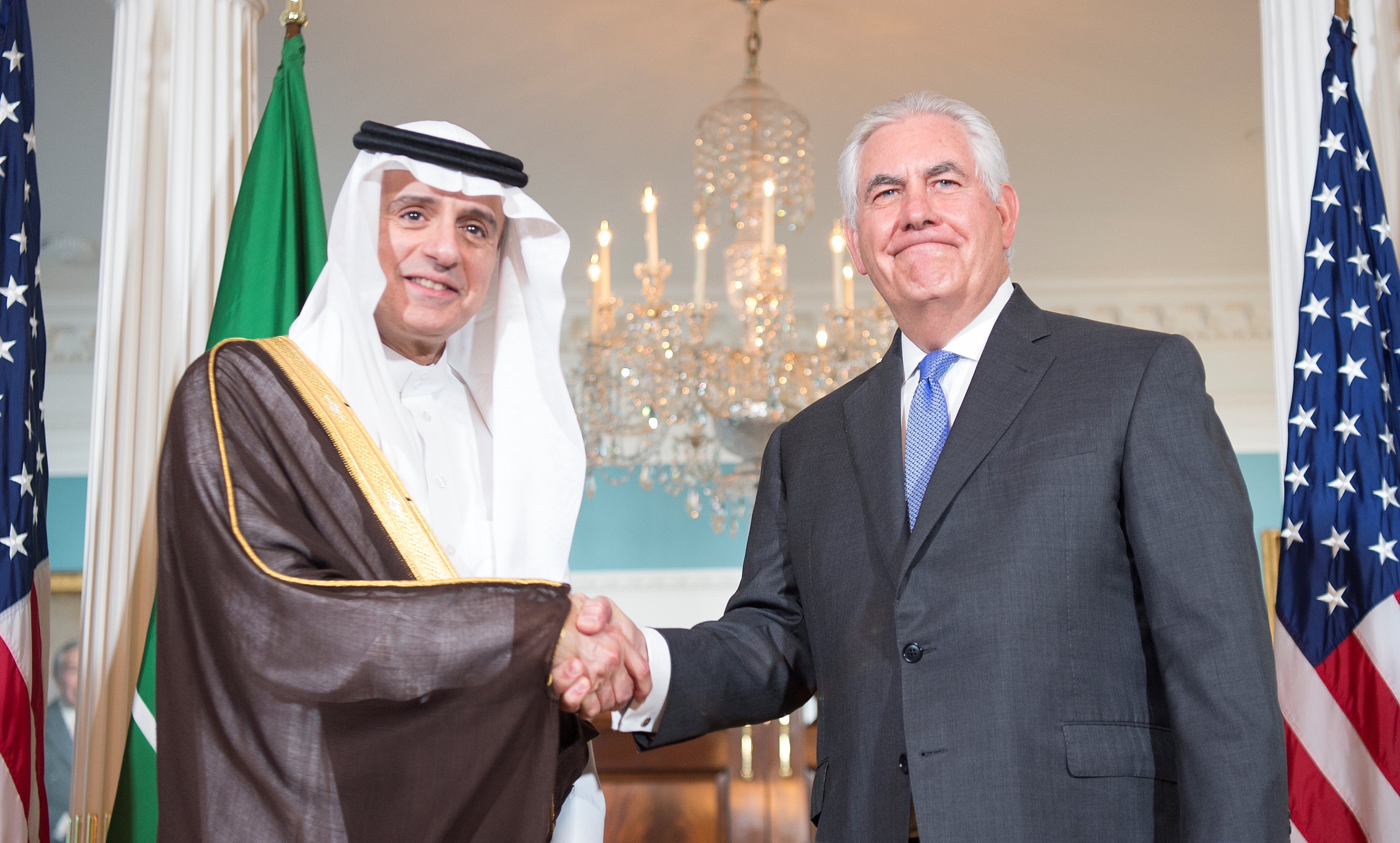 U.S. Secretary of State Rex Tillerson shakes hands with Saudi Foreign Minister Adel al-Jubeir before their bilateral meeting at the U.S. Department of State in Washington, D.C., on June 13, 2017. [State Department photo/ Public Domain]